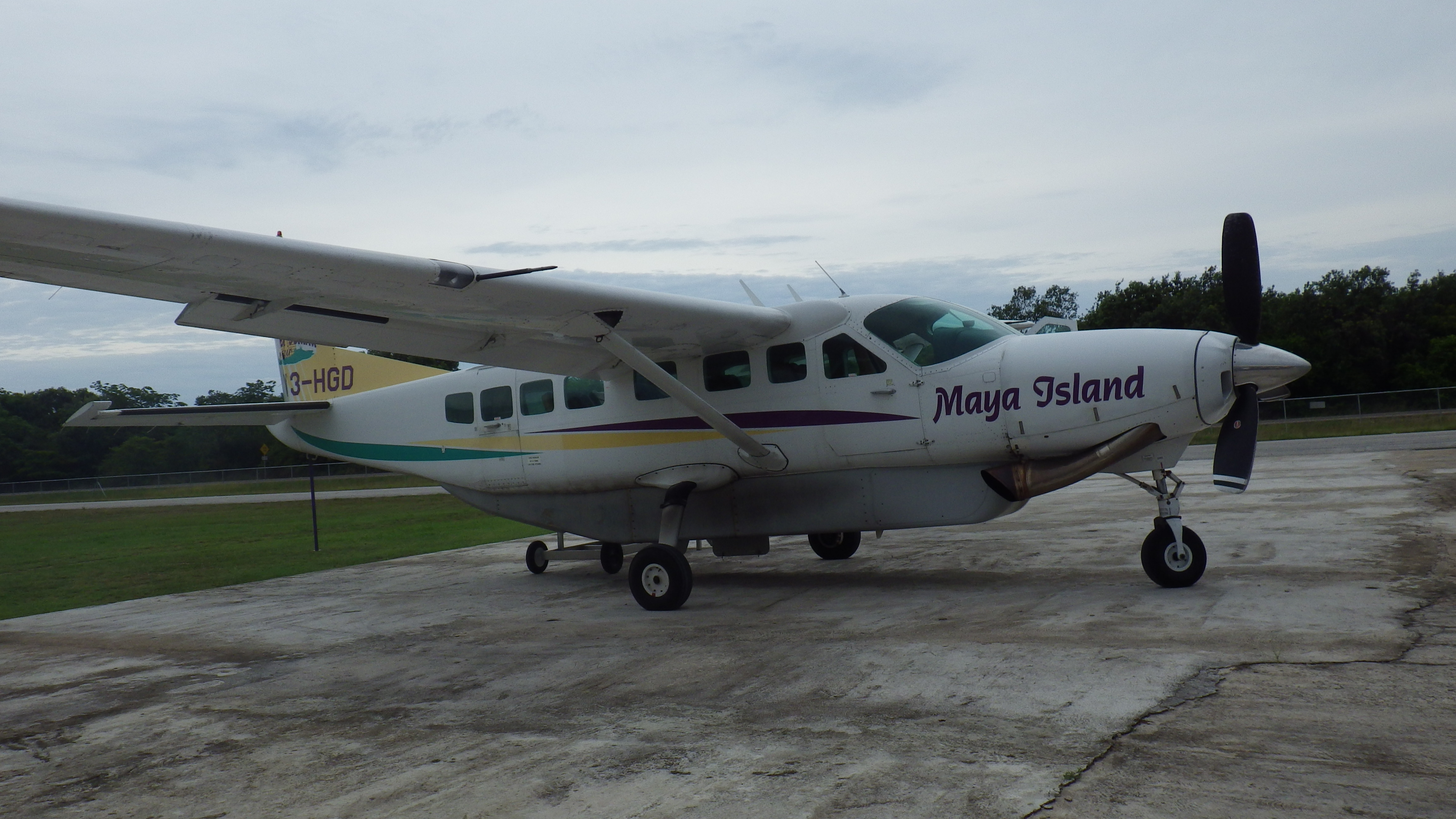 Maya Island Air Cessna 208 (V3-HGD) at Placencia Airport